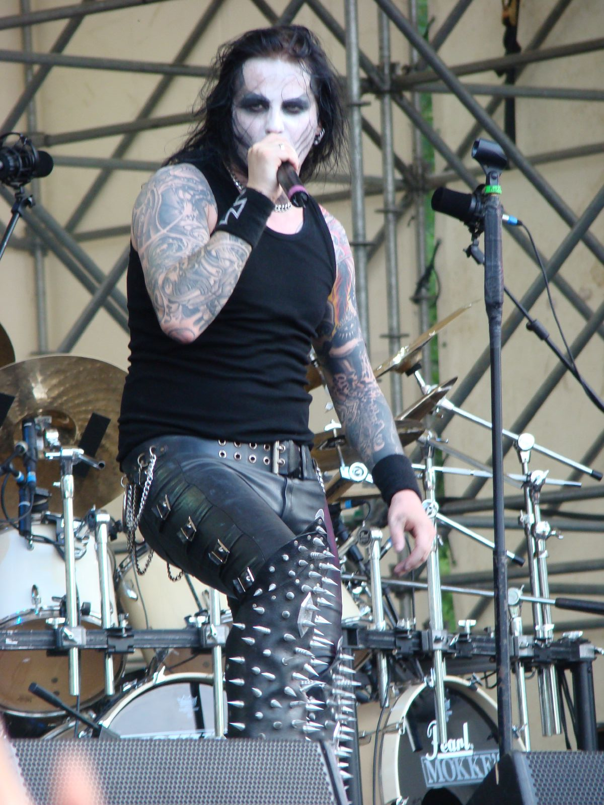 Shagrath of Dimmu Borgir, Gods of Metal festval, 2007